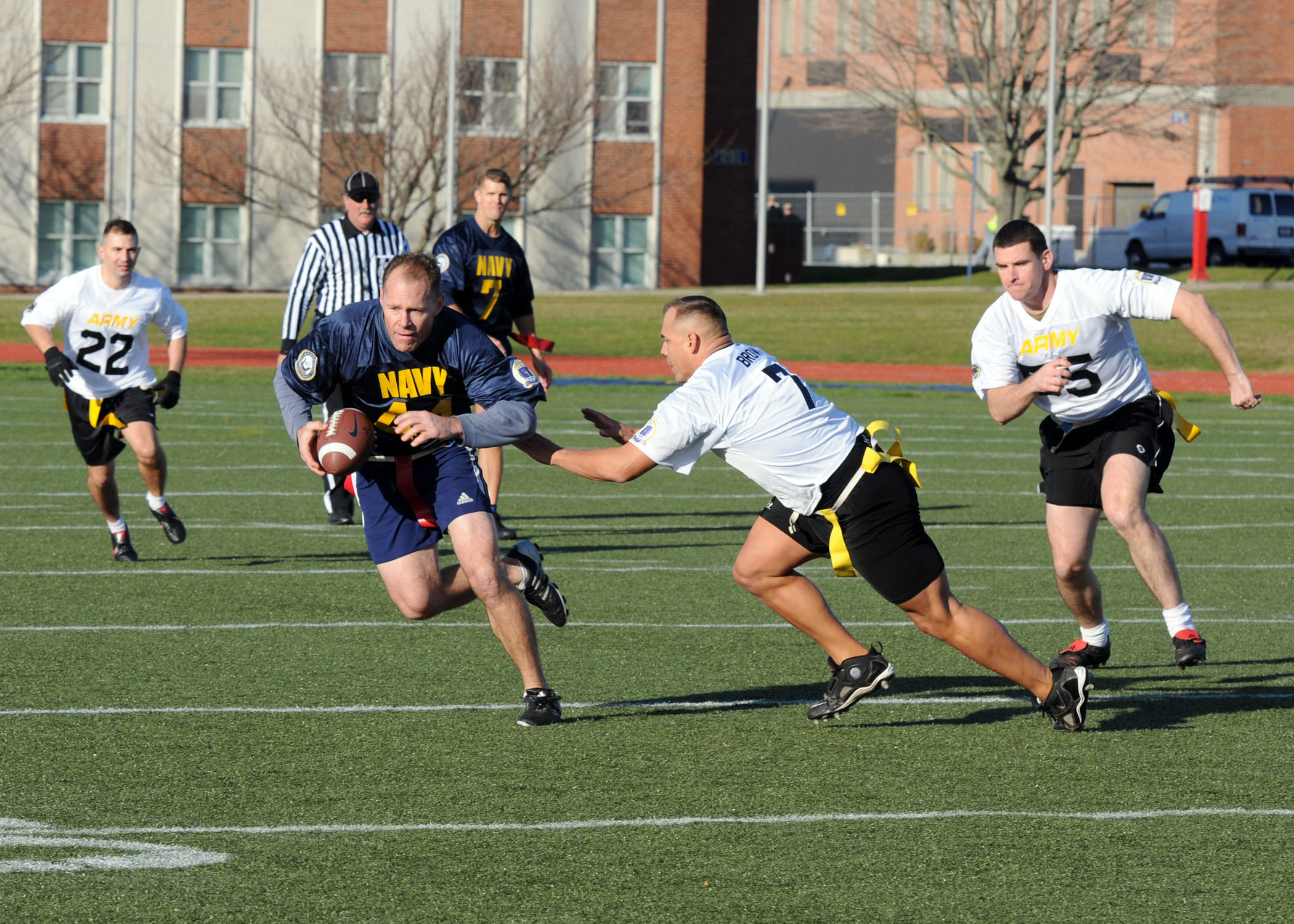 NEWPORT, R.I. (Dec. 2, 2011) Cmdr. Bill Mallory tries for more yards after a reception during a flag football game celebrating the annual Army-Navy football game. The Navy students at the U.S. Naval War College won the game 33-12. (U.S. Navy photo by James E. Brooks/Released)